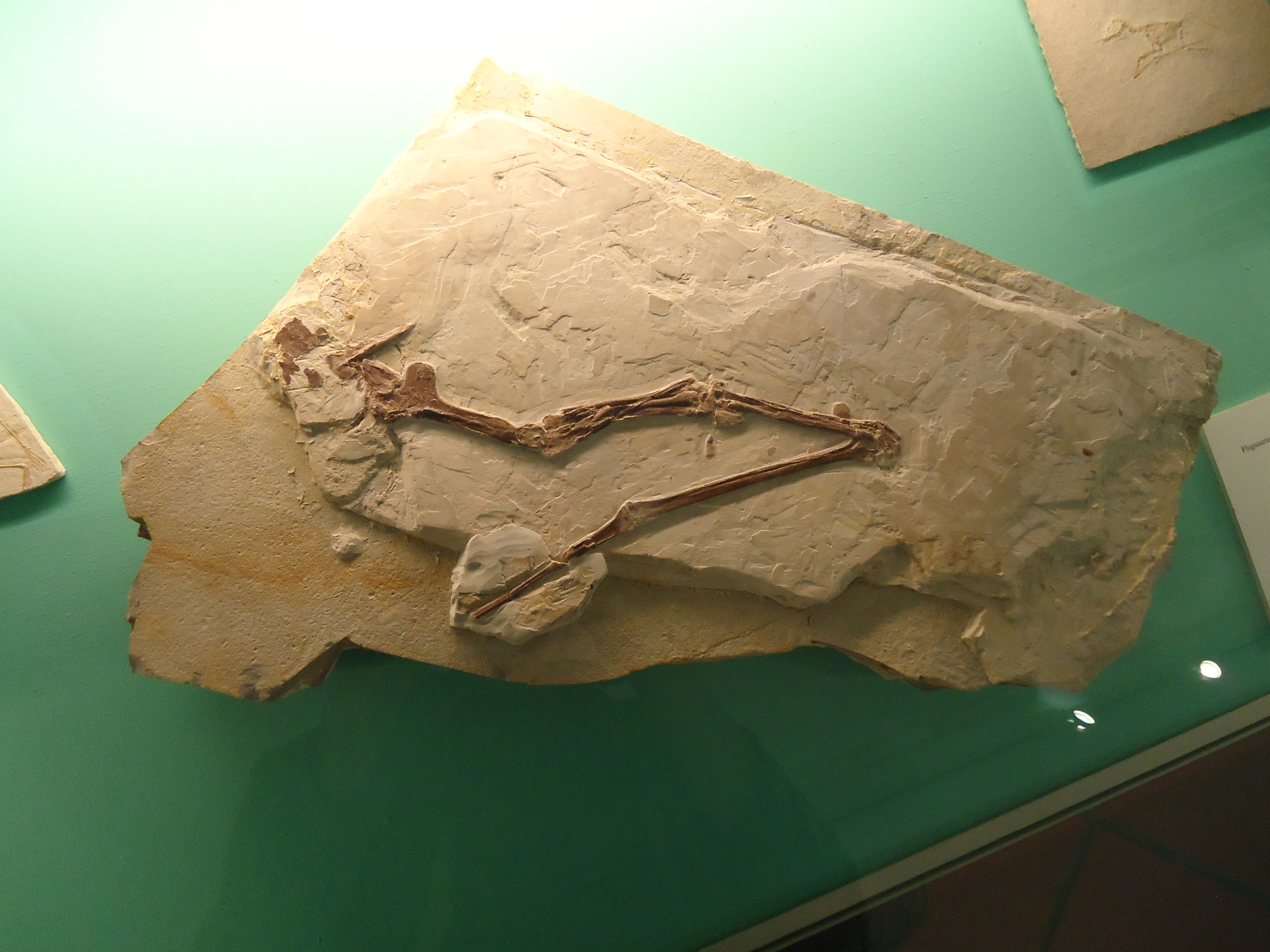 Fossil wing bones of Pterodactylus, Naturkundemuseum Ostbayern